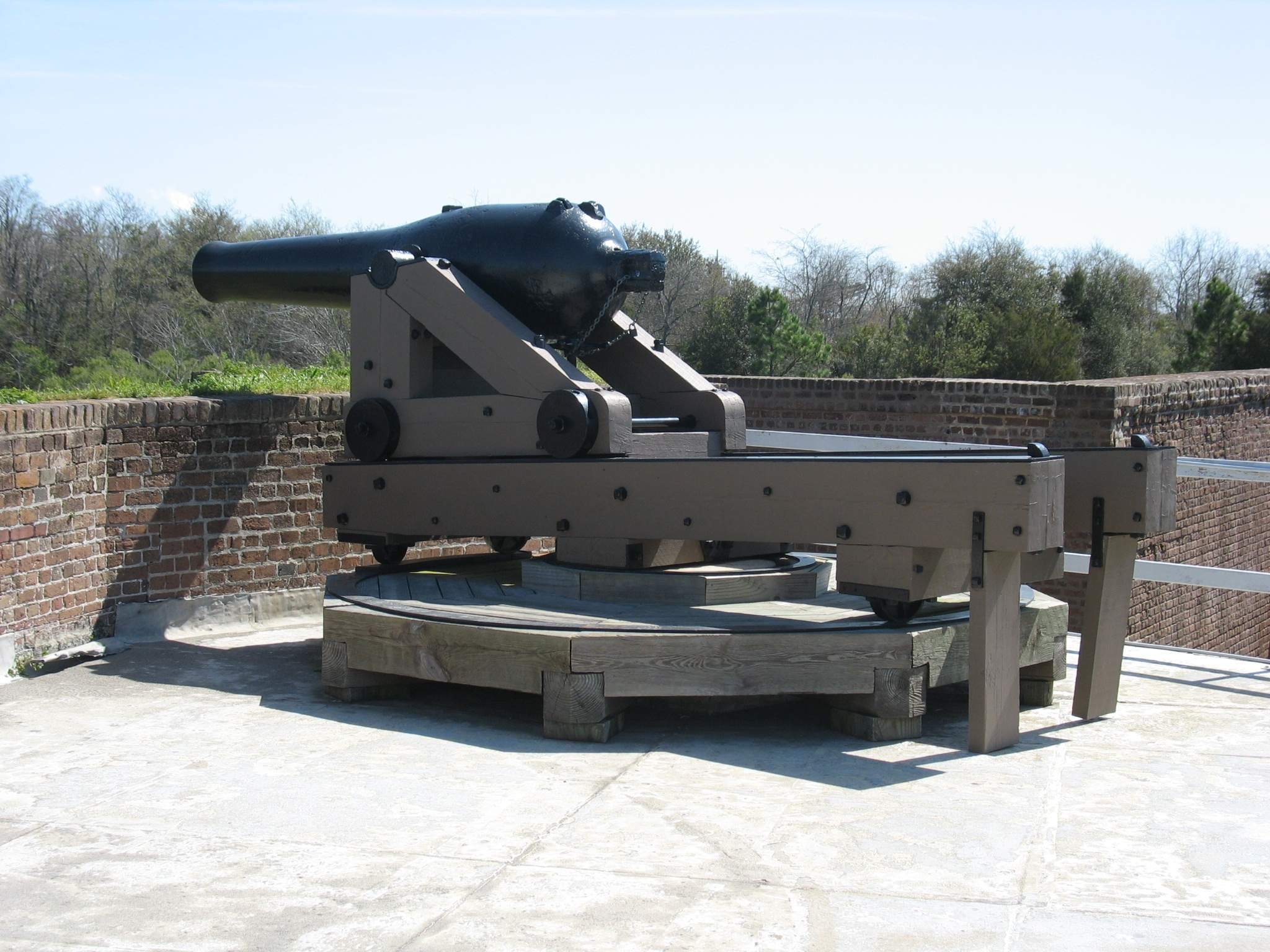 Armata Cannon, Fort Jackson, Georgia, USA. This is a US Navy Dahlgren gun.